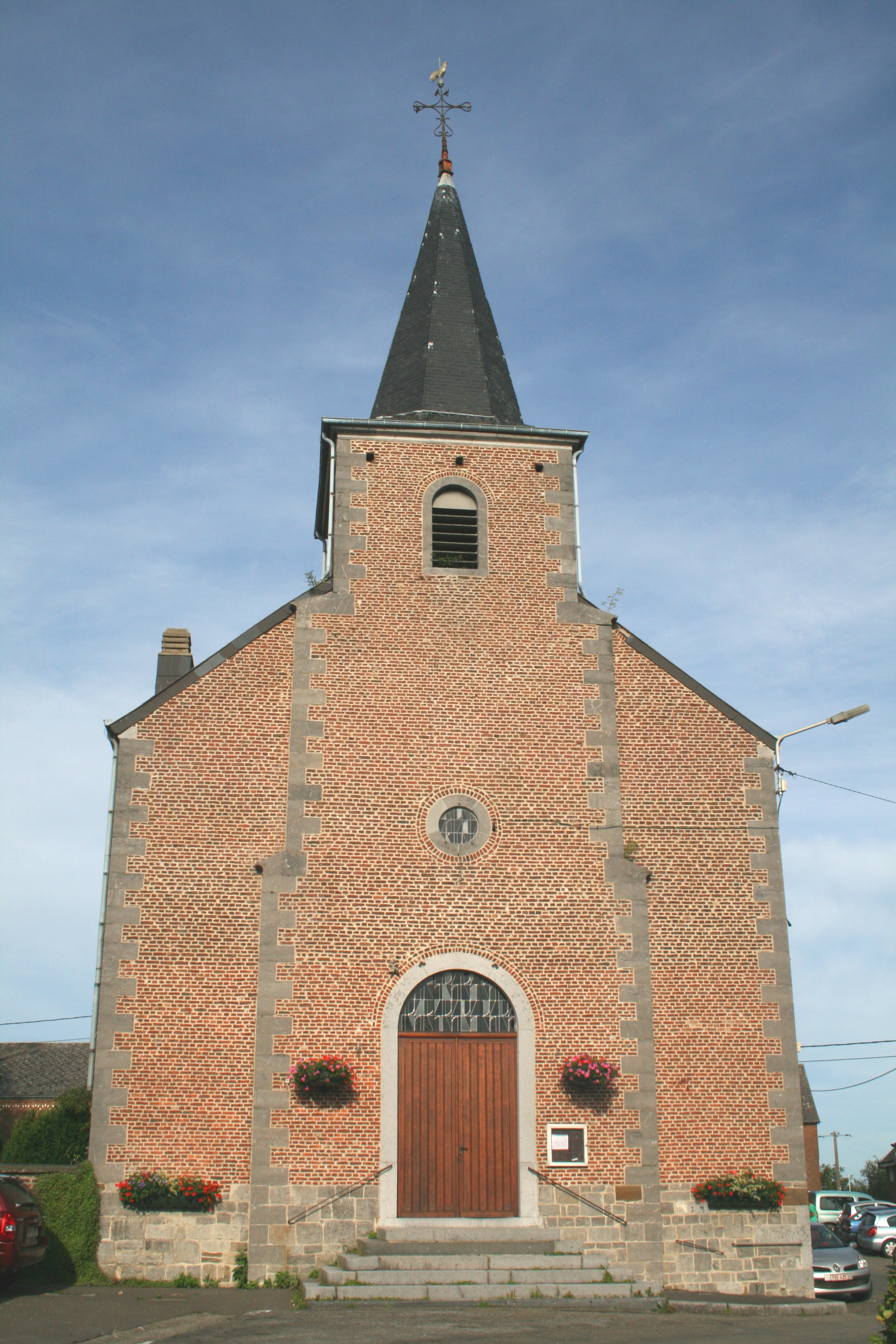 Mont-Gauthier (Belgium), the Saint Remigius' church (1854).